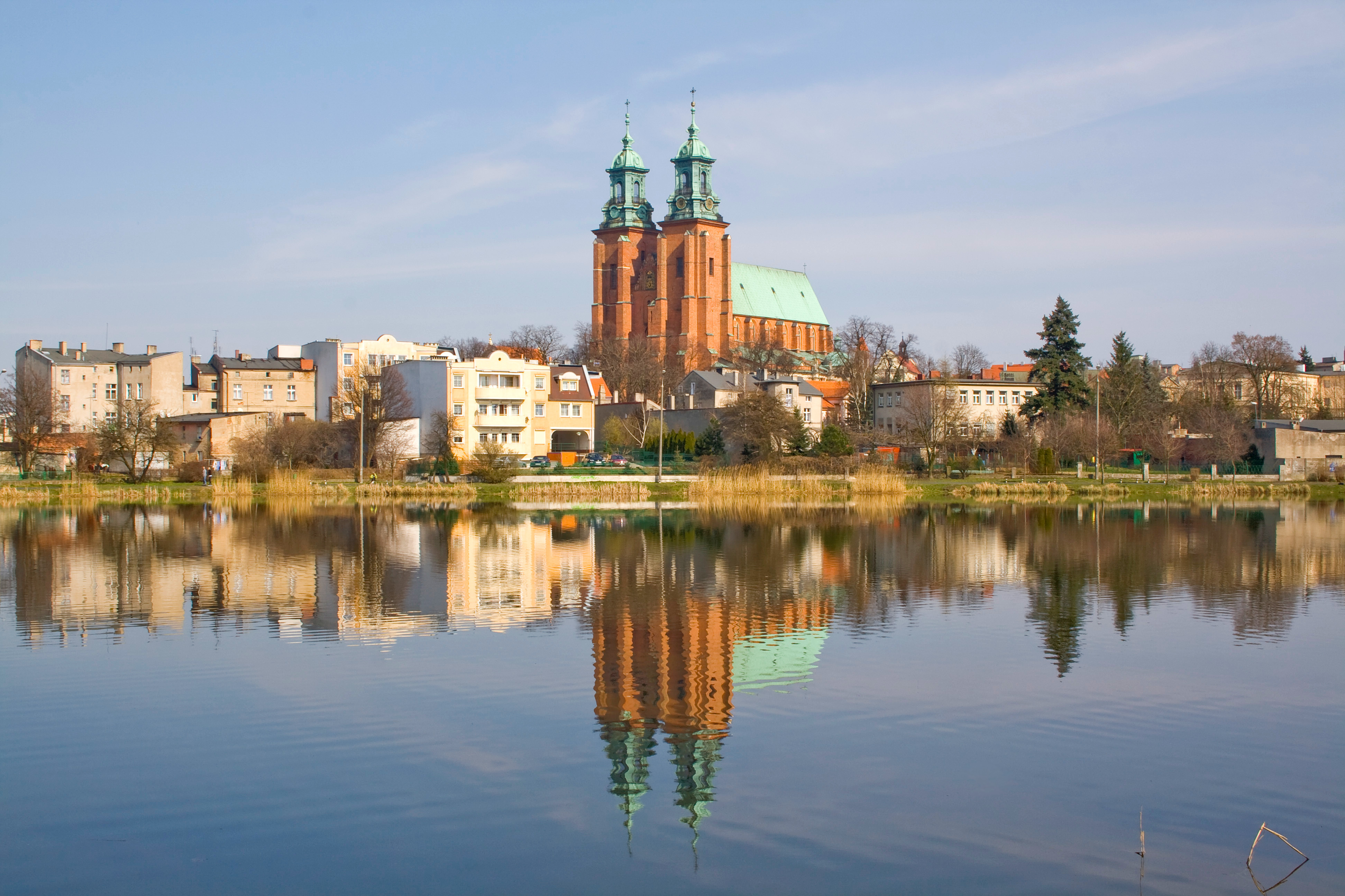 Exterior of the Gniezno Cathedral, Gniezno, Poland